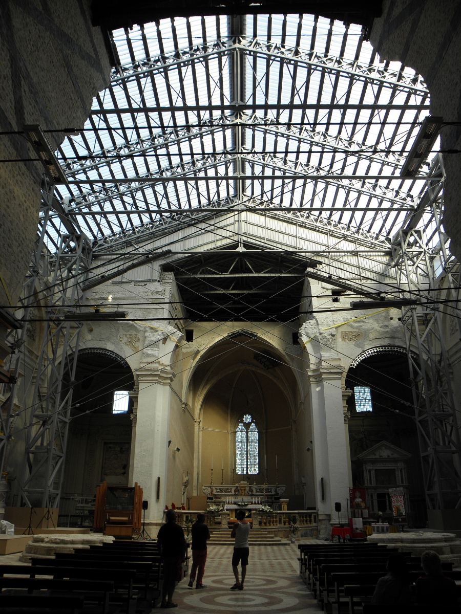 L'Aquila 2010